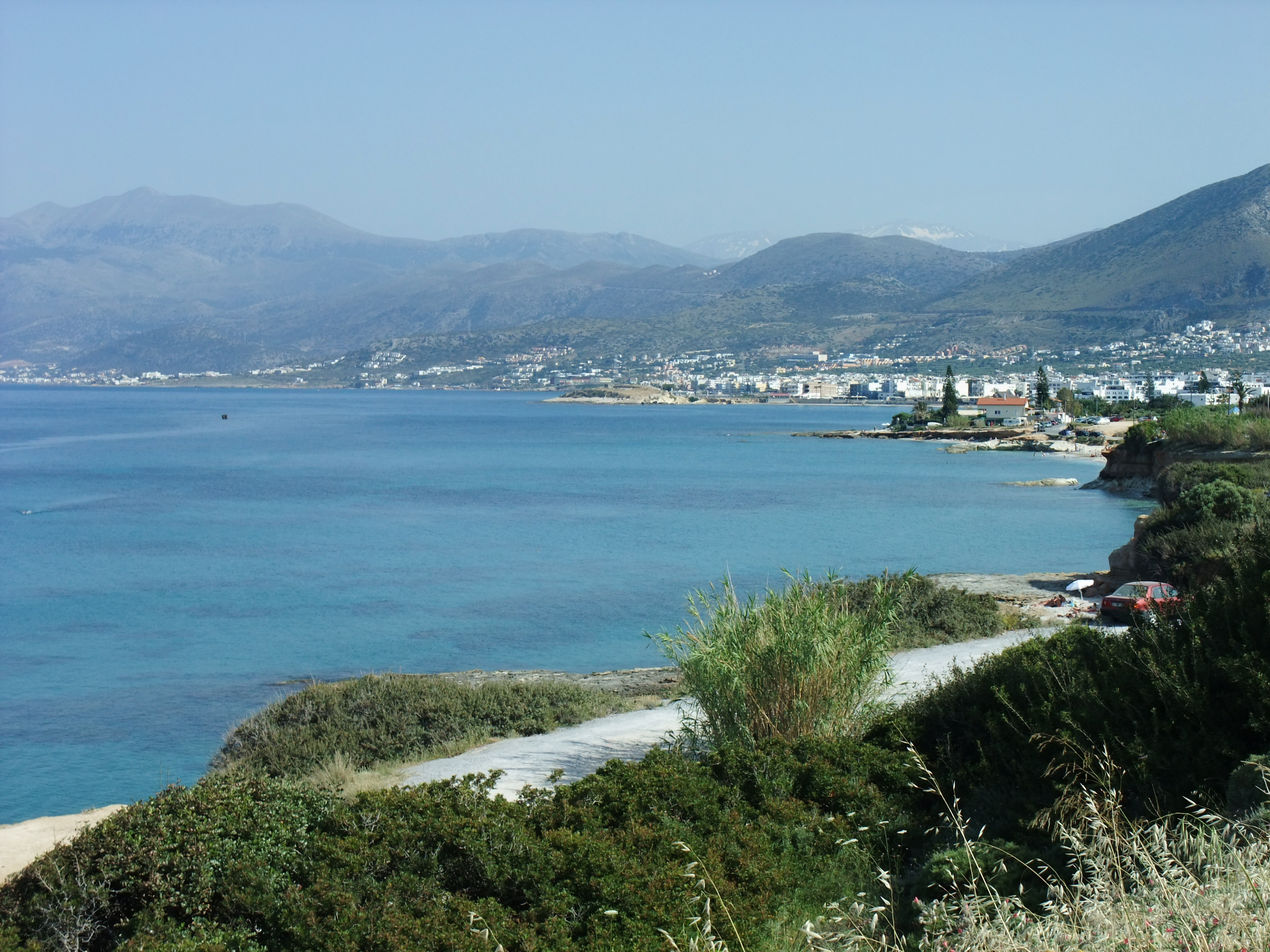 Bay of Limenas Chersonisos, Crete, Greece